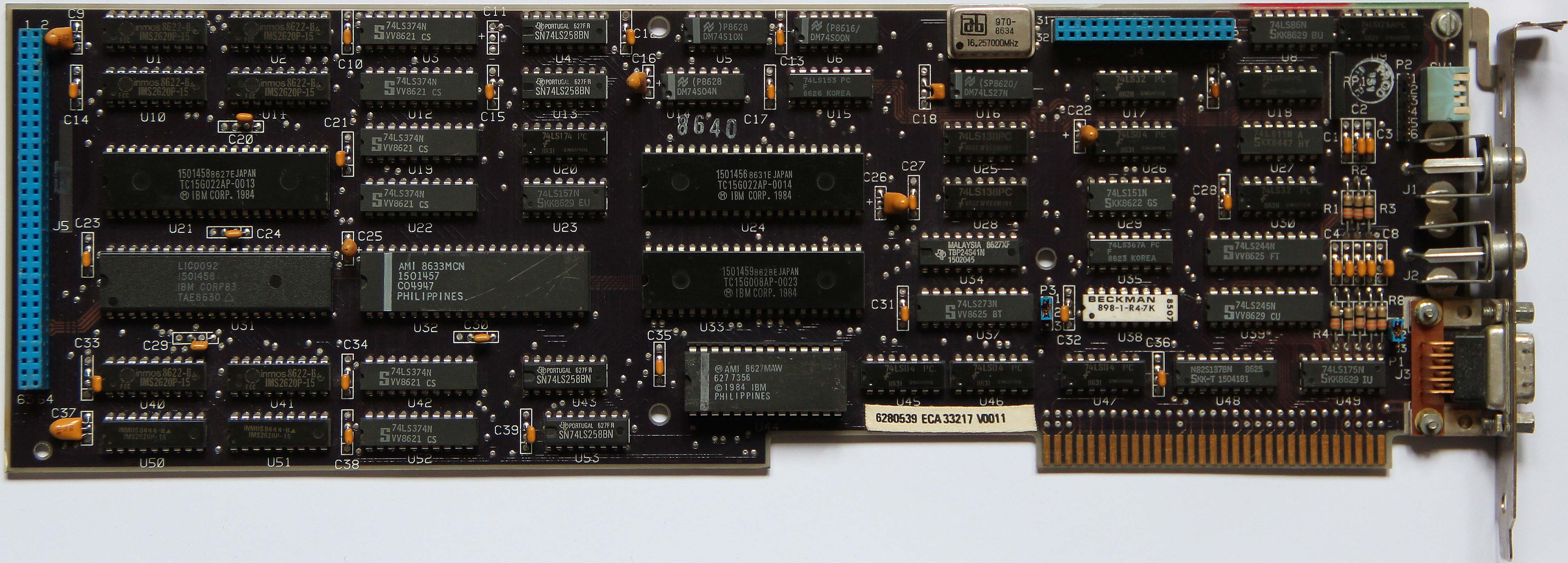 Original IBM EGA card with 64 kB memory. Its upgradeable to 256 kB with aditional memory PCB - goes into blue slots on card.